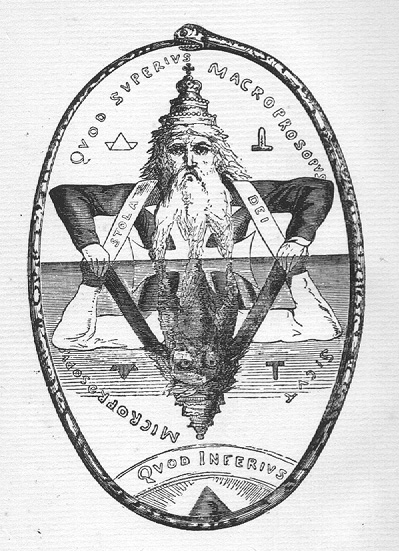 Illustration from: TRANSCENDENTAL MAGIC. ITS DOCTRINE AND RITUAL, BY ÉLIPHAS LÉVI, INCLUDING ALL THE ORYGINAL ENGRAVINGS AND A PORTRAIT OF THE AUTHOR, LONDON, GEORGE REDWAY, 1896